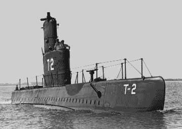 Photograph of United States Navy training submarine USS Marlin (SST-2).